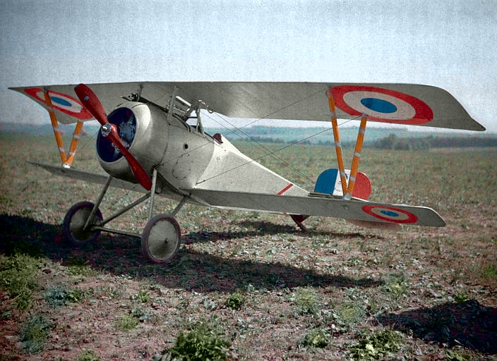 WW1 - Nieuport biplane fighter. (Haut-Rhin, France 1917) by Paul Castelnau This image has been digitally manipulated.